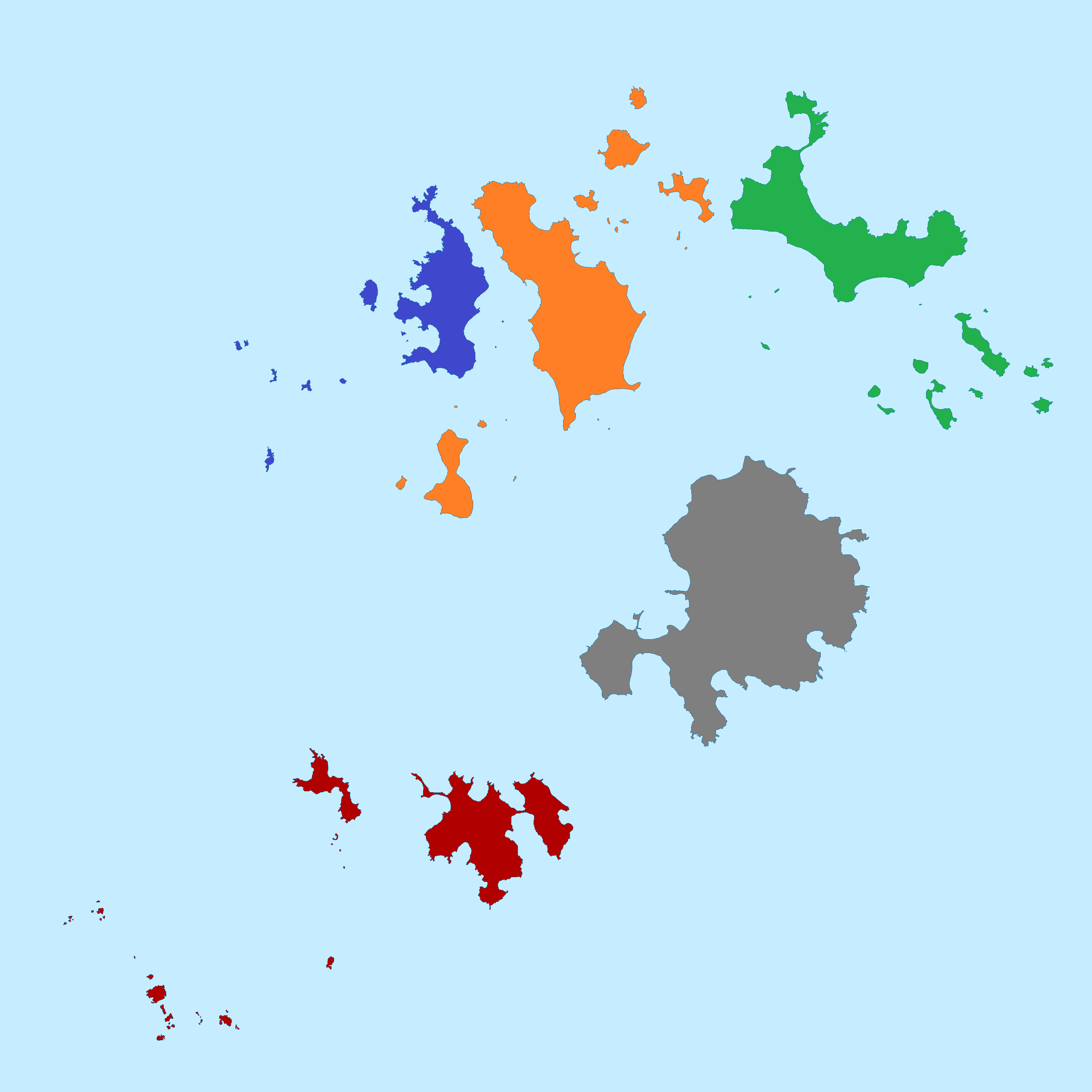 The civil parishes or wards of the Isles of Scilly, England.Civil parishes or wards shown in colors: Tresco Bryher St. Mary's St. Martin's St. Agnes